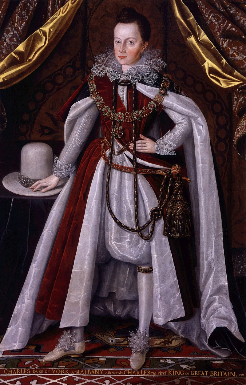 Charles, Duke of York and Albany. The future Charles I of England is dressed the robes of the Order of the Garter. Later inscription " CHARLES DUKE OF YORK And ALBANY. Afterwards CHARLES The First KING OF GREAT BRITAIN"